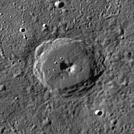 Kōshō crater, on Mercury. MESSENGER Wide Angle Camera mosaic. Image is approximately 121 km wide.